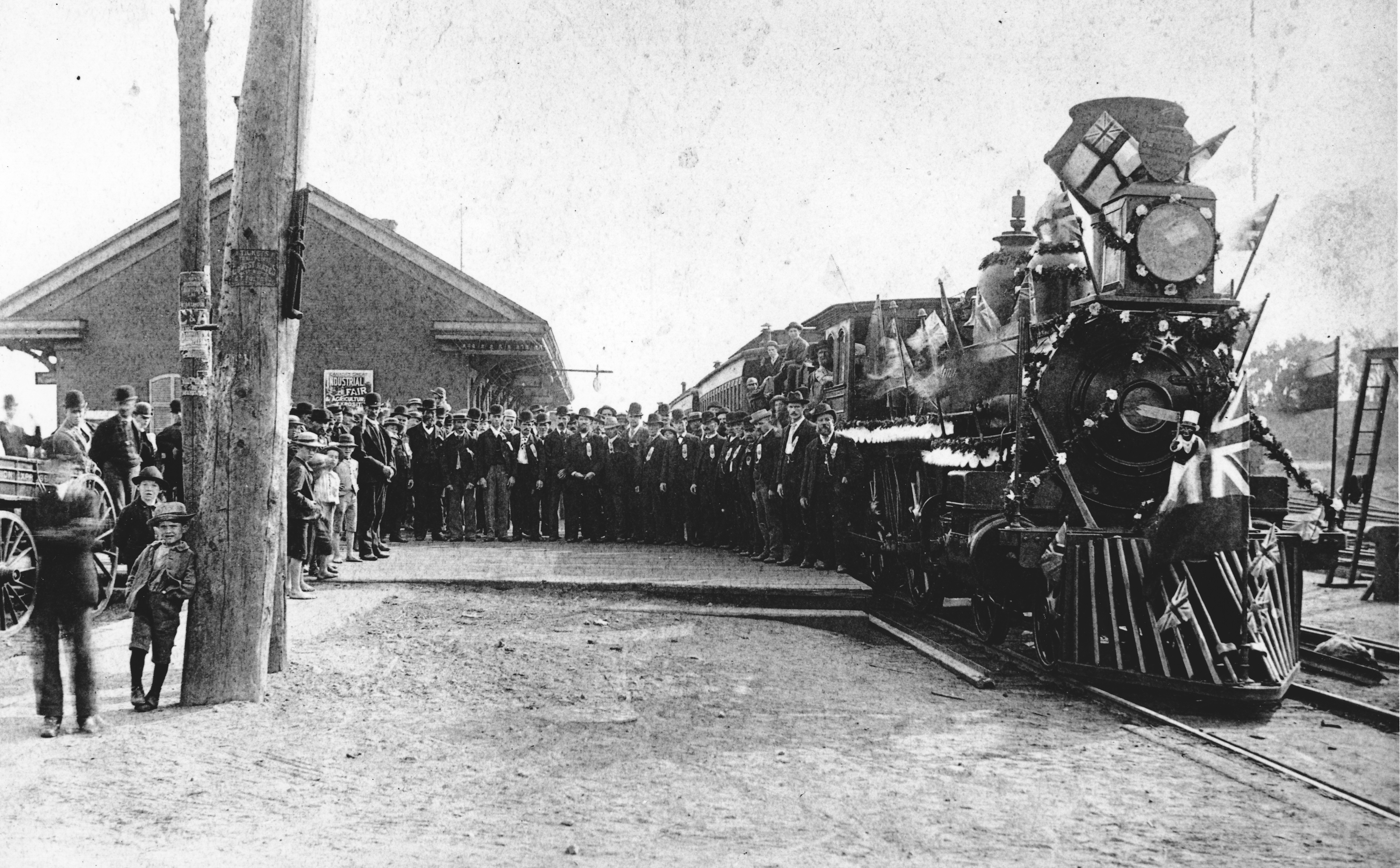 Royal ? train at the Brockville GTR station, date unknown. Early 20th Century.